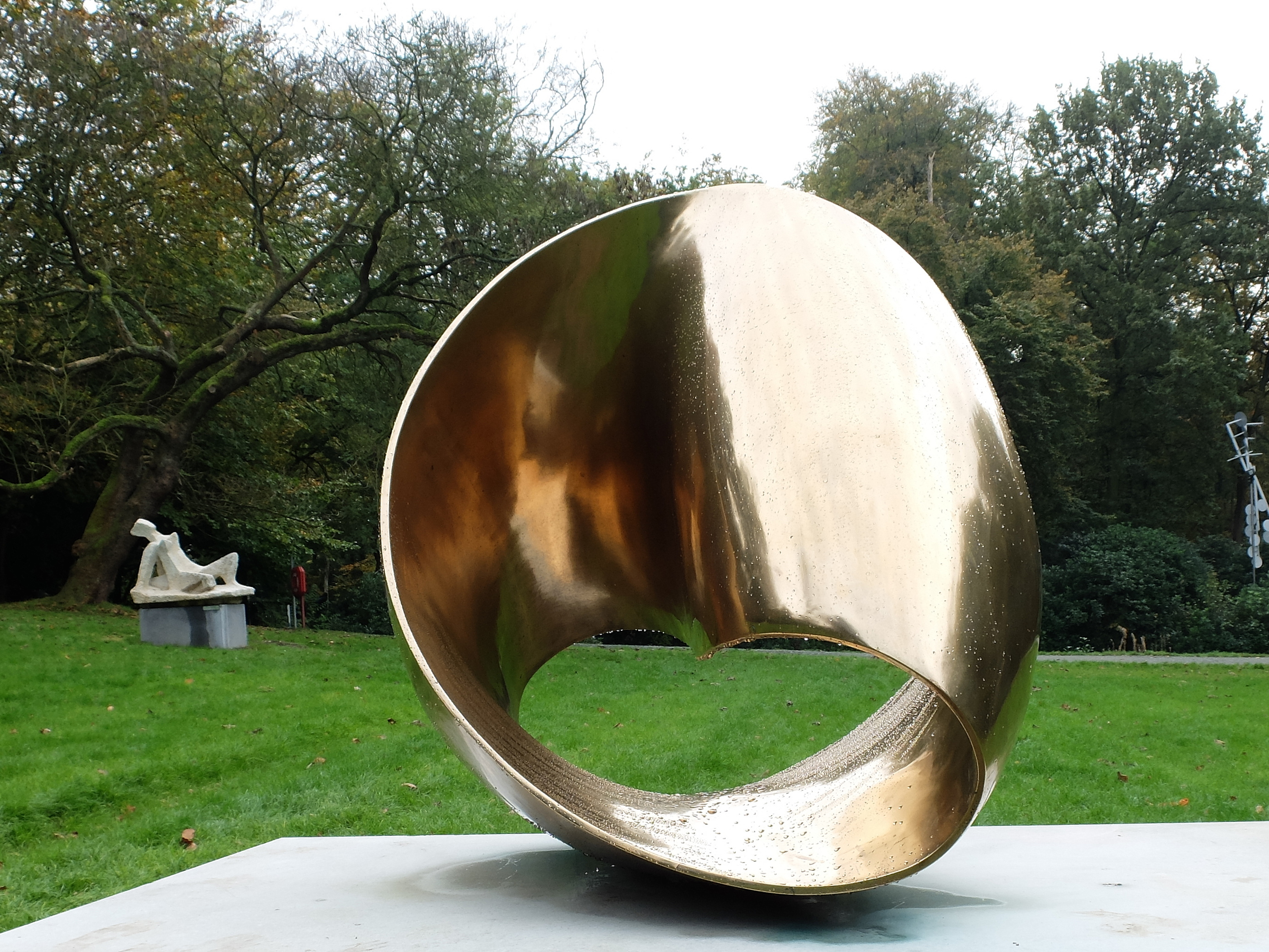 Max Bill: Endless surface, 1956